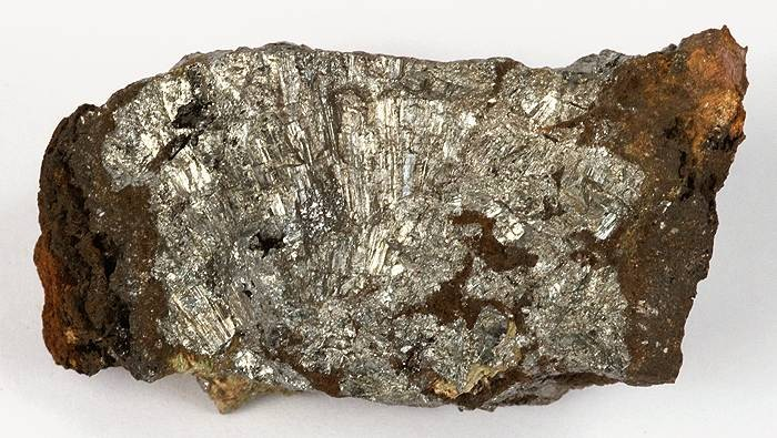 Penroseite Locality: Virgen de Surumi mine (Pacajake mine; Pakajake mine), Pakajake Canyon (Pacajake Canyon), Chayanta Province, Potosí Department, Bolivia (Locality at ) Size: 4.9 x 2.4 x 1.8 cm. Penroseite is a very rare nickel, cobalt, copper selenide and this rich and fine specimen is from the Type Locality - the Virgen de Surumi Mine of Bolivia. The famous selenium minerals from this locality have often been falsely attributed to the Hiaco mine (2km west, on the opposite flank of Pakajake canyon) or to the Colquechaca mine (28km southwest), but neither of those mines yields any selenium minerals at all. Silvery, metallic, parallel-growth blades of penroseite comprise nearly all of this very rich specimen. Accompanied by a 1950s era, faded Burminco label that has a penciled-in, August, 1951 date. Ex. Mullane Collection. Weighs 60 grams.